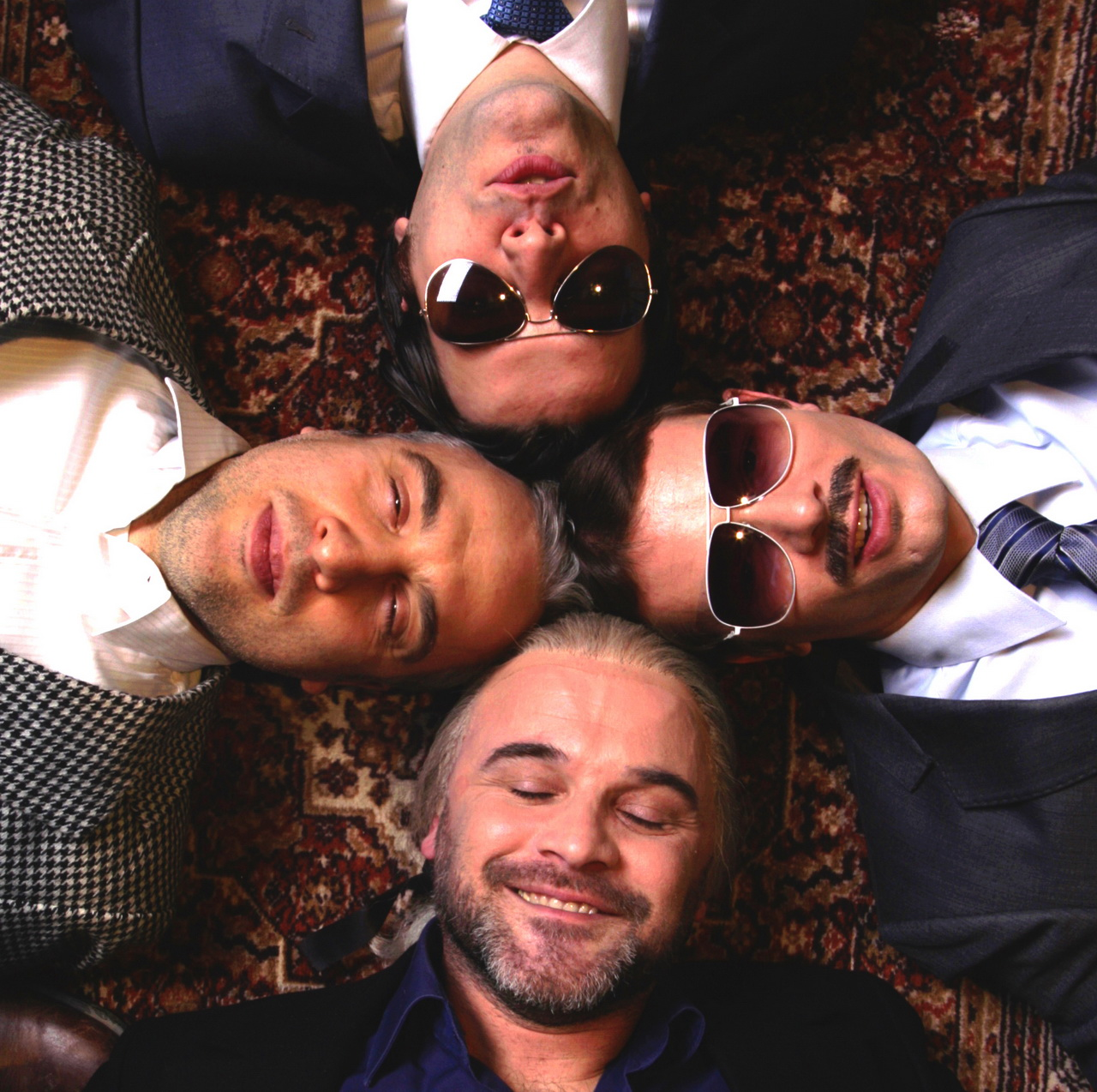 "High life - Zdrav(o) život(e)!", The Play by Lee MacDougall; directed by Nikola Zavišić; Drama of the SNT, Novi Sad, 2012/13, Igor Palvović - left, Nenad Pećinar - down, Ivan Đurić - right, Marko Savić - up Srpski (latinica): "High life - Zdrav(o) život(e)!", komad Li Mekdugala; režija Nikola Zavišić; Drama SNP-a, Novi Sad, 2012/13, Igor Palvović - levo, Nenad Pećinar - dole, Ivan Đurić - desno, Marko Savić - gore Српски (ћирилица): "High life - Здрав(о) живот(е)!", комад Ли Мекдугала; режија Никола Завишић; Драма СНП-а, Нови Сад, 2012/13, Игор Палвовић - лево, Ненад Пећинар - доле, Иван Ђурић - десно, Марко Савић- горе